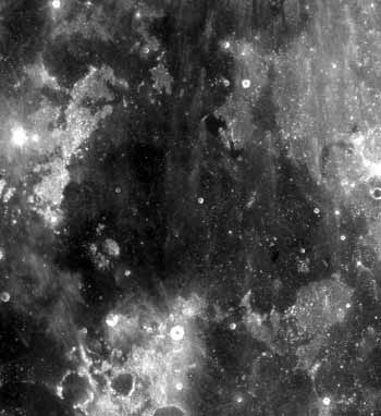 Mare Cognitum is located in a basin or large crater which sits in the sencond ring of the Procellarum basin. The mare formations are of the Upper Imbrian epoch, while the surrounding basin material is of the Lower Imbrian epoch. You can clearly make out the mountain range Montes Riphaeus to the northwest of the mare. These mountains are a part of the rim crest of the buried crater or basin, containing the mare. Also, notice the lighter grey area to the upper right of the photo. This is Fra Mauro; the landing site of Apollo 14.